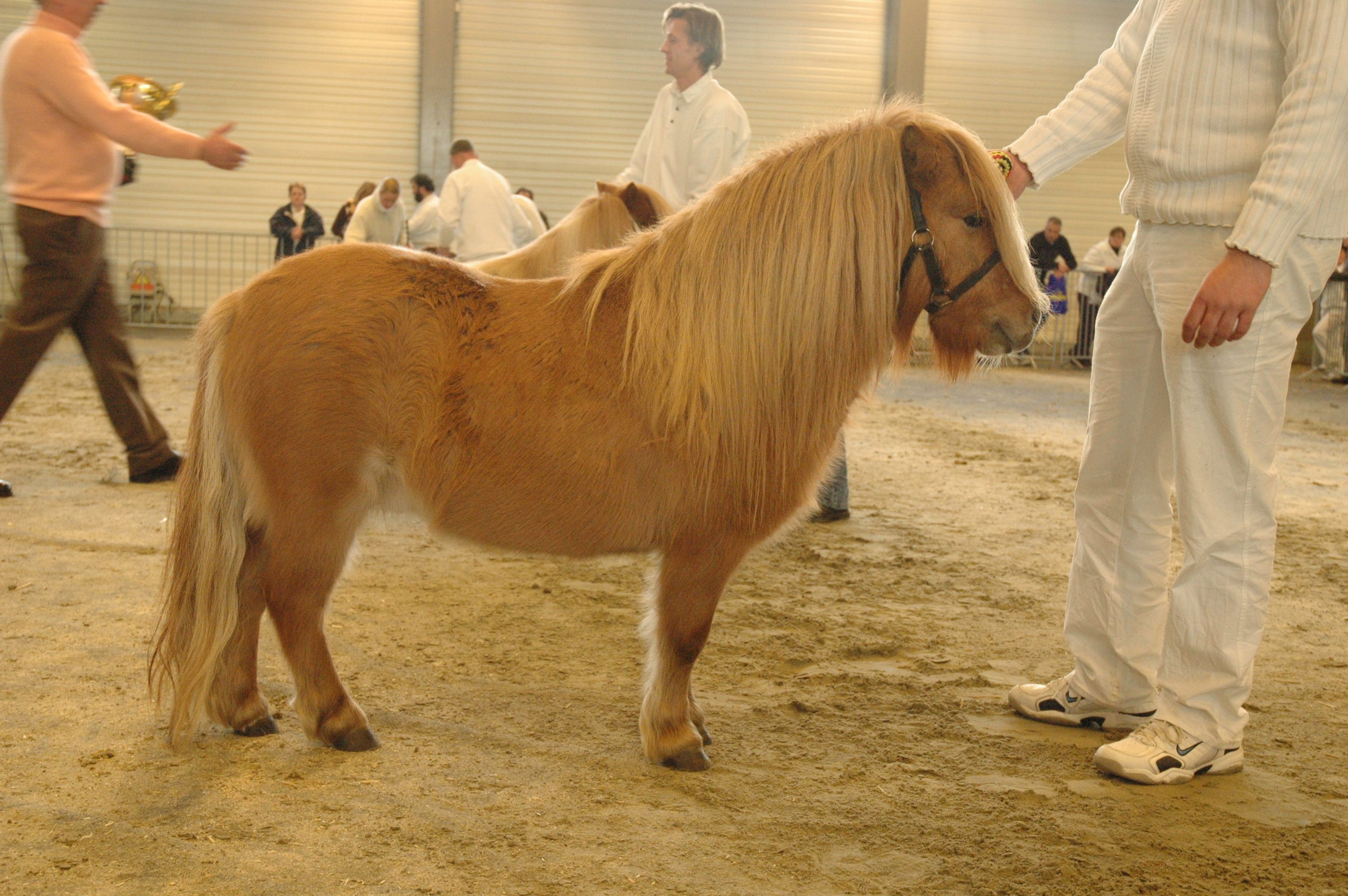 Shetland pony at the Shetland pony prijskamp - Agriflanders 2009